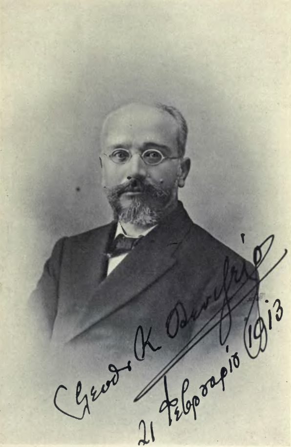 Greek politician and prime minister Eleftherios Venizelos